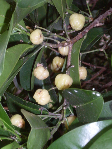 Acronychia littoralis fruit